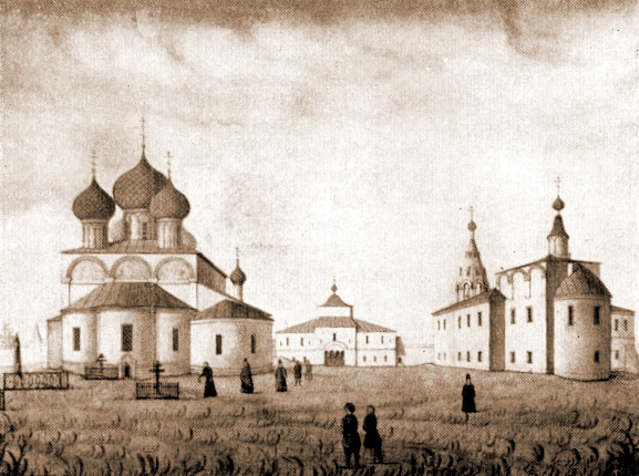 Nikolo-Ulejjminskijj monastyr, painting by V.I. Serebriannikov in 1840-s.